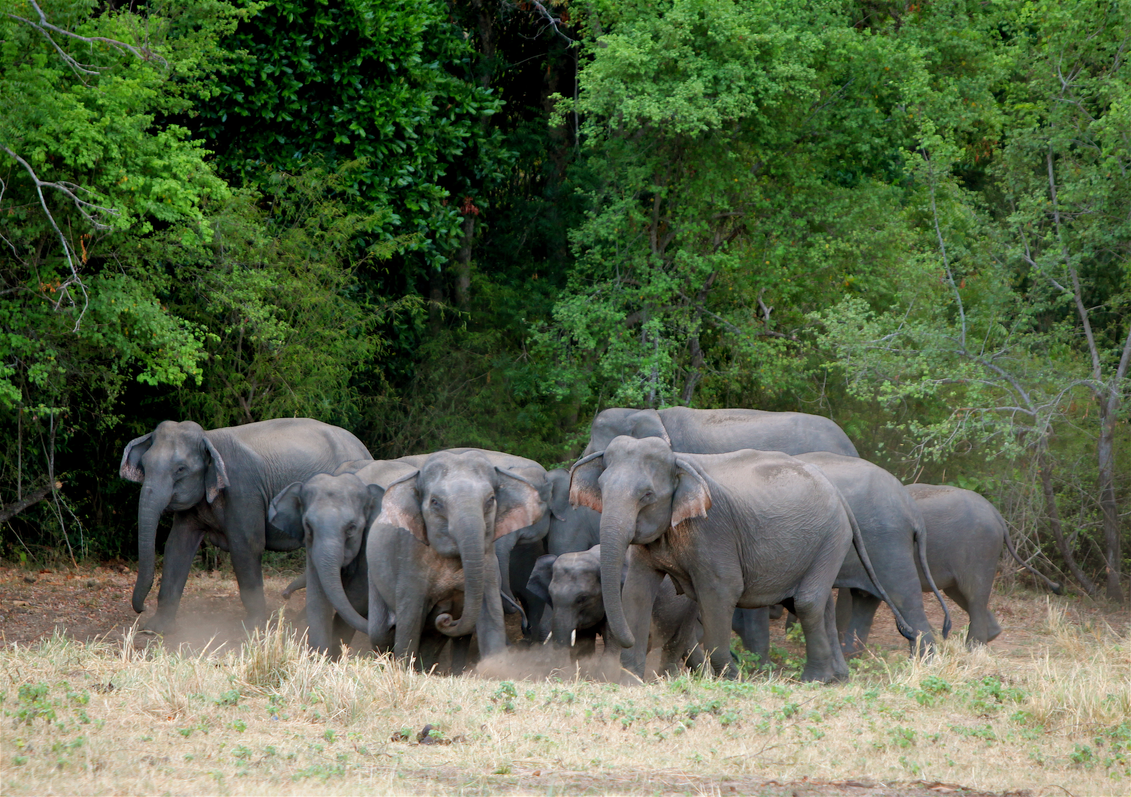 Elephants are extremely protective of their young. At the sight of our jeep, adults surround the infants. Around 175 jeeps carrying tourists visit Minneriya National Park every day - raising concerns about humans over-stressing the wild elephant population.